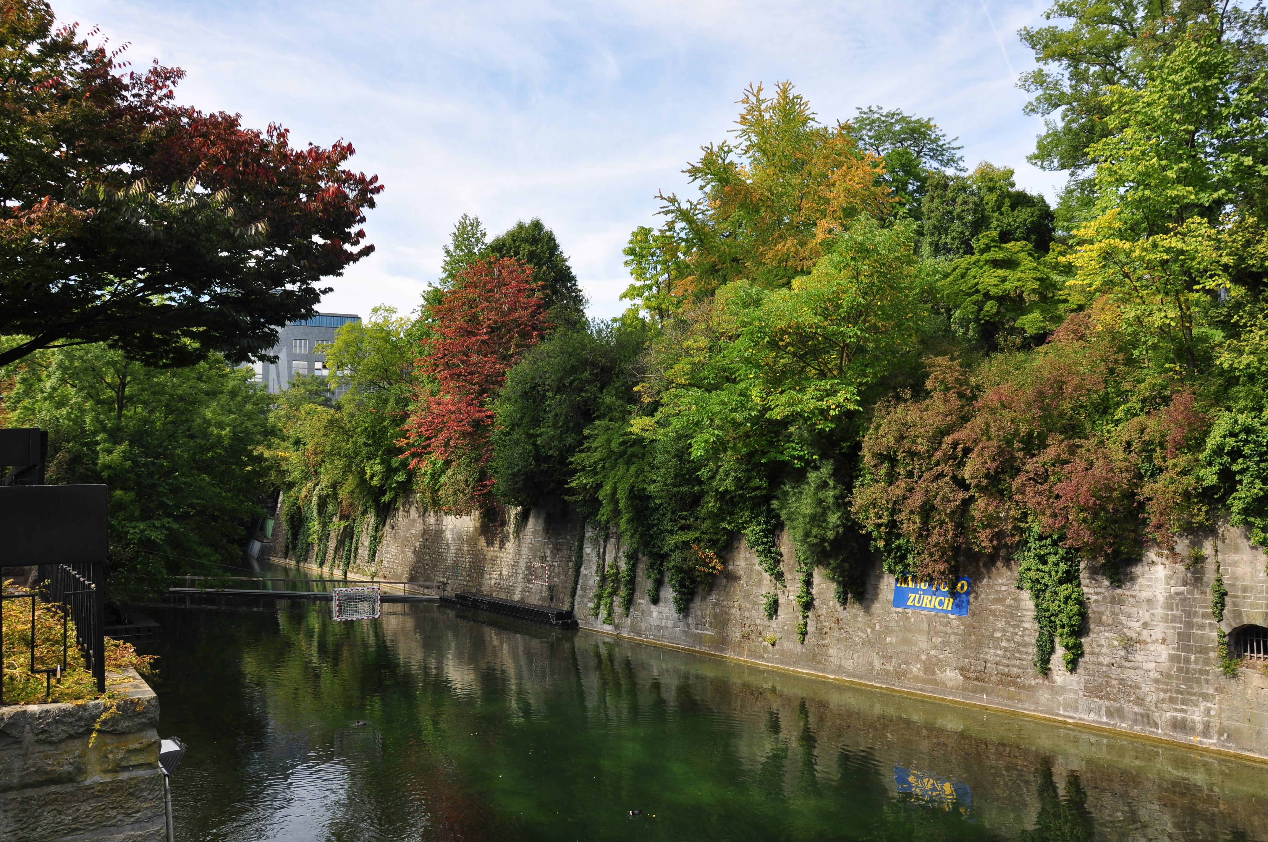 Zürich : Botanical Garden «zur Katz» in the areal of the Völkerkundeseum (Museum of Ethnology), University of Zürich. Former fortification «zur Katz» and the botanical garden's arboretum, as seen to the north over the so called Schanzengraben moat